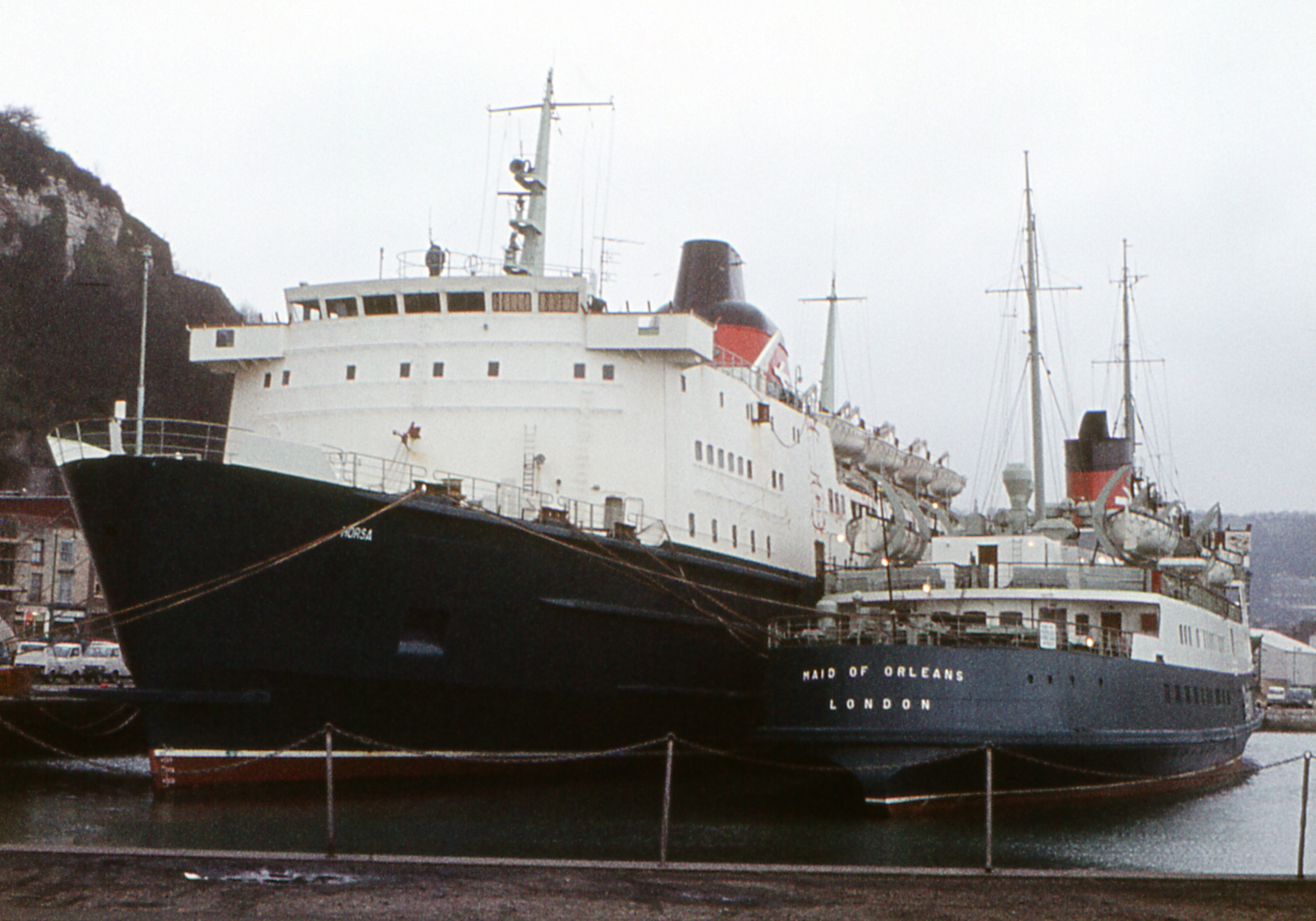 The Sealink Cross Channel Ferries "HORSA" and "MAID OF ORLEANS" berthed at Dover sometime in the early 1970s. "MAID OF ORLEANS" was built in 1949 by William Denny & Brothers. Served until 1975 when laid up at Newhaven. Damaged when hit by another ship, scrapped at San Esteban de Pravia, Spain Camera: Olympus Pen F Half Frame SLR. Film: Agfacolour.